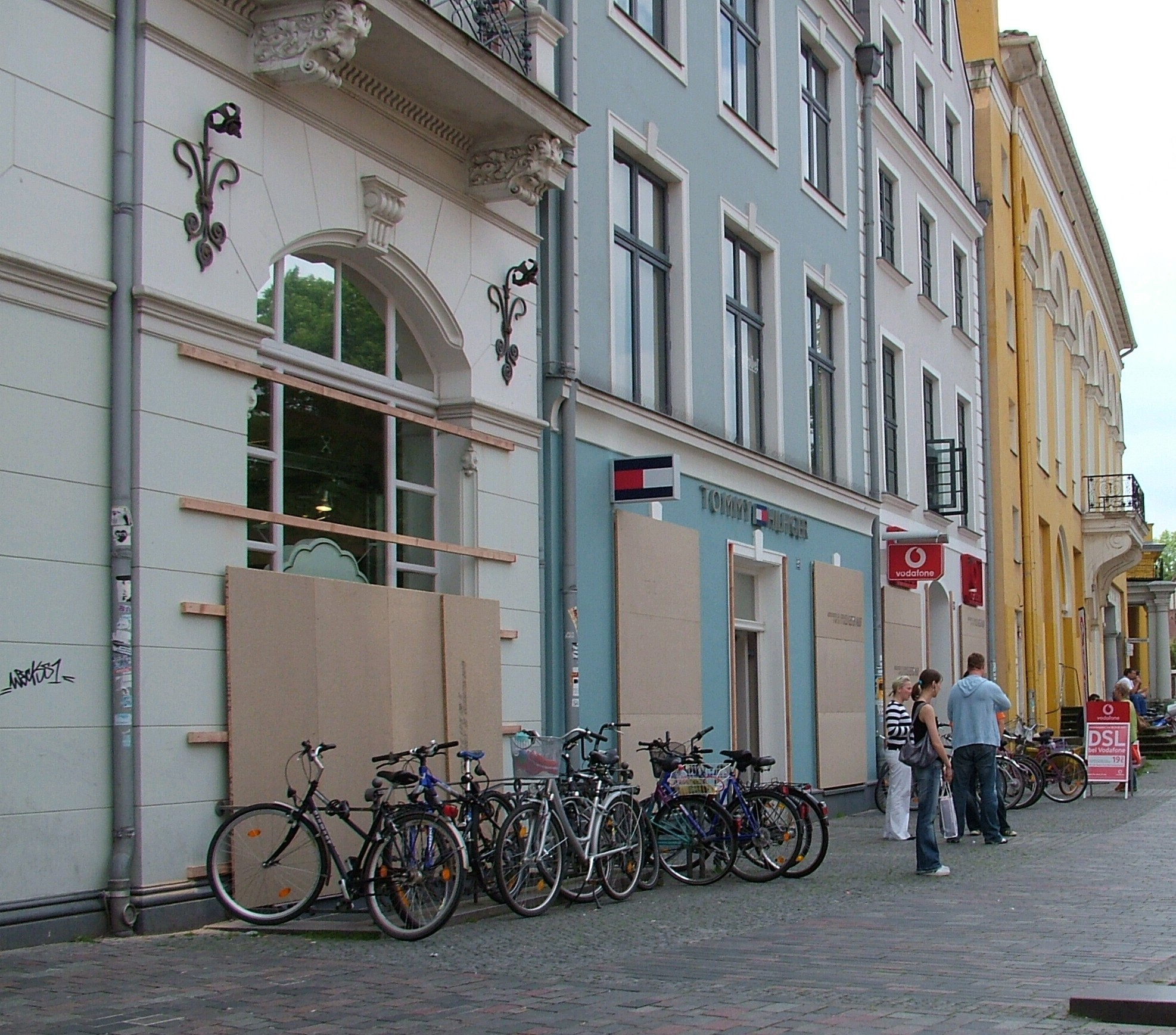 In anticipation of the protests around 33rd G8 summit, many shop owners in Rostock boarded up their windows. These particular shops are at the Uniplatz.